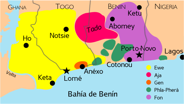 Map - labelled in Spanish - showing the distribution of the various Gbe languages